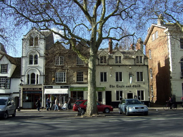 St Giles, west side From right to left: the Eagle and Child pub, an inn since 1650 and named for the Earl of Derby's family crest. Next to it a trendily modern 'green' cafe, a newsagent and the unchanged St Giles cafe at which generations of Oxford students have stoked up on traditional breakfast fare with no alternative pretensions.